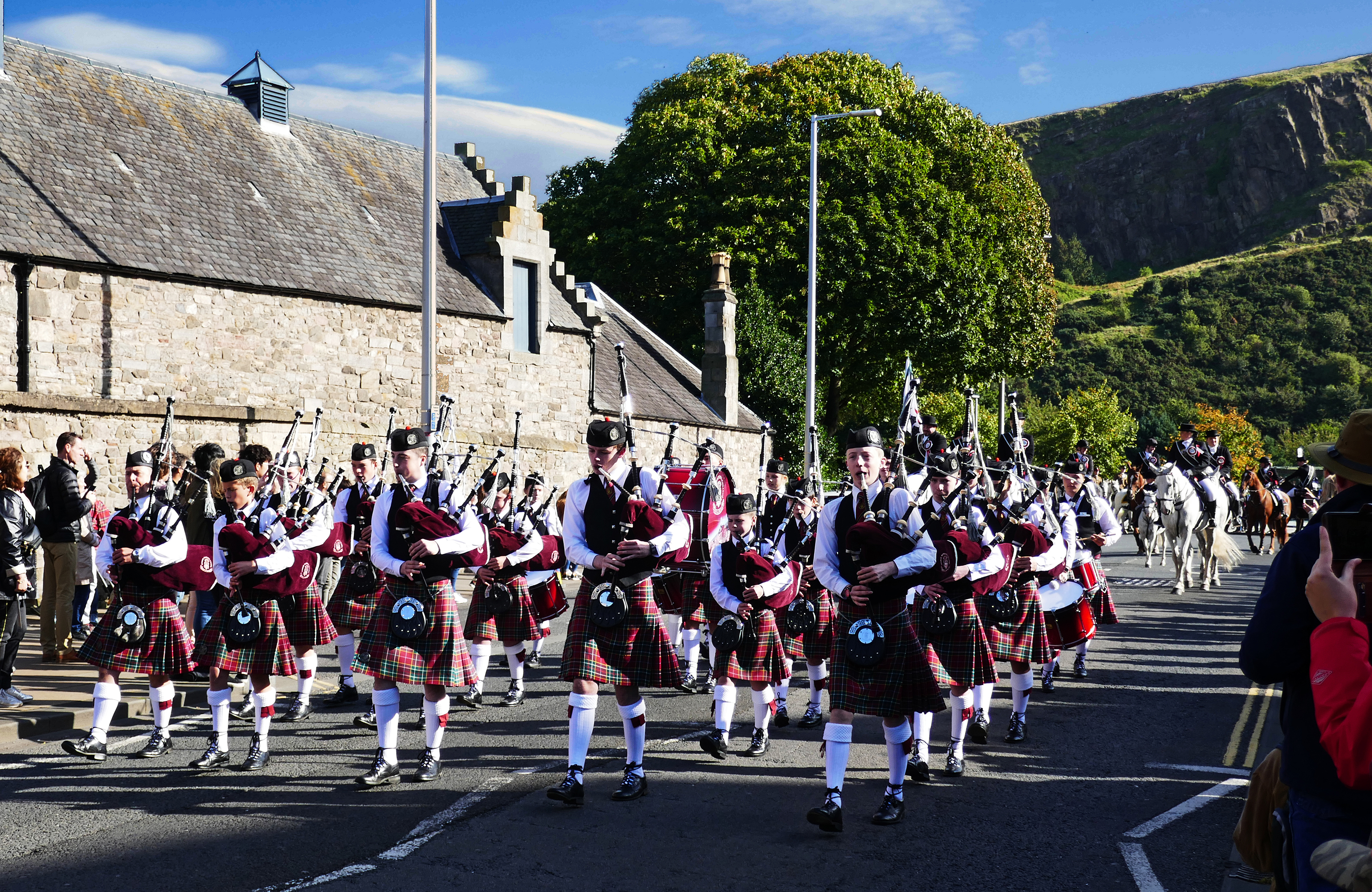 A pipe and drum band leads the Riding of the Marches past the Palace of Holyroodhouse in Ediinburgh, Scotland, on Sept. 15, 2019.